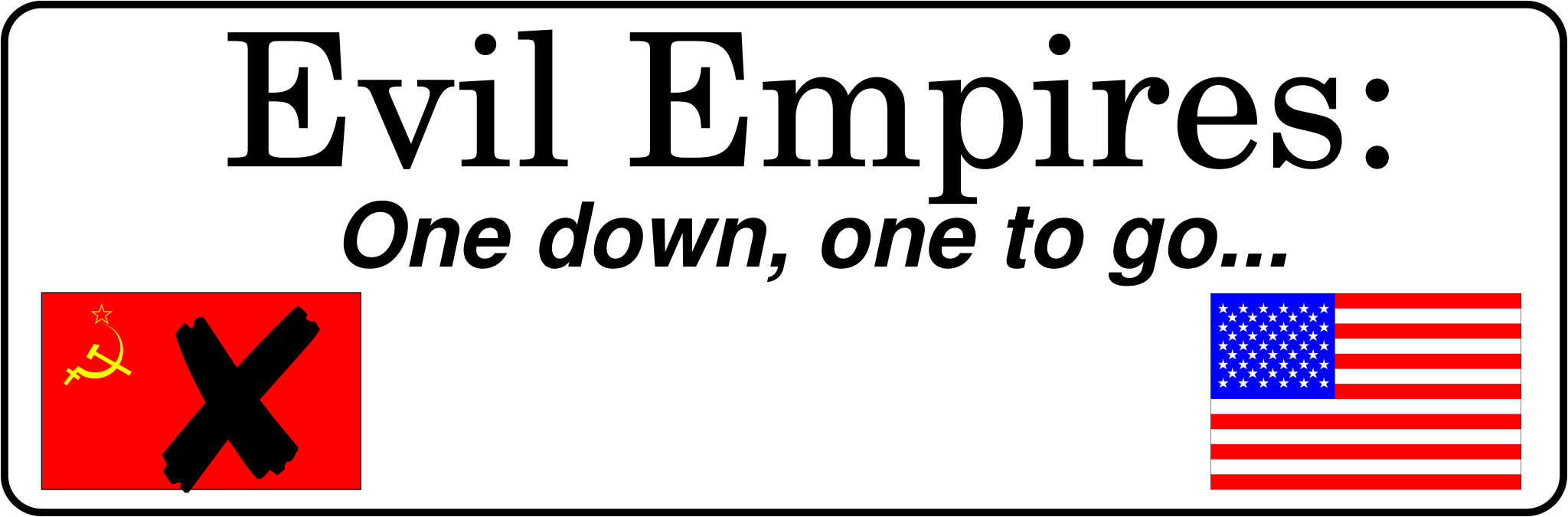 Evil Empires bumper sticker, see John Walker (programmer)#Activism.